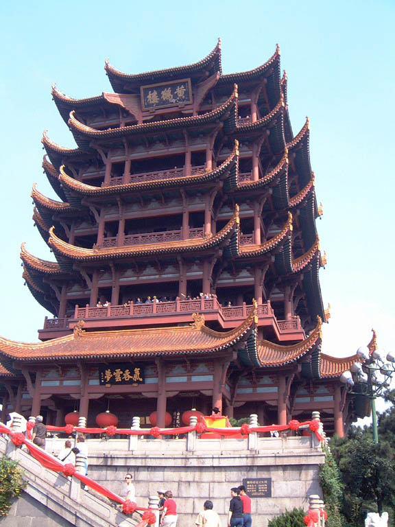 Yellow Crane Tower on Snake Hill, Wuhan, China